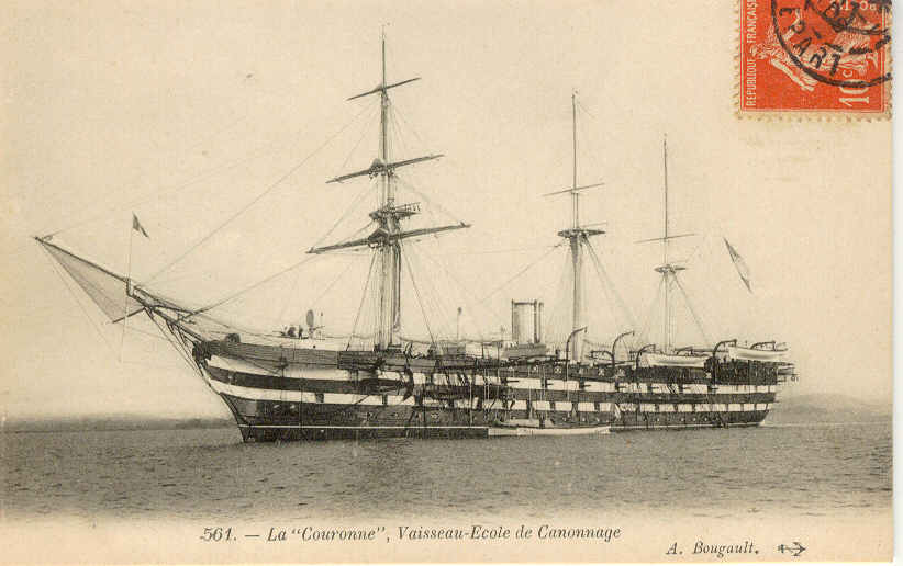 French ironclad Couronne (1861)